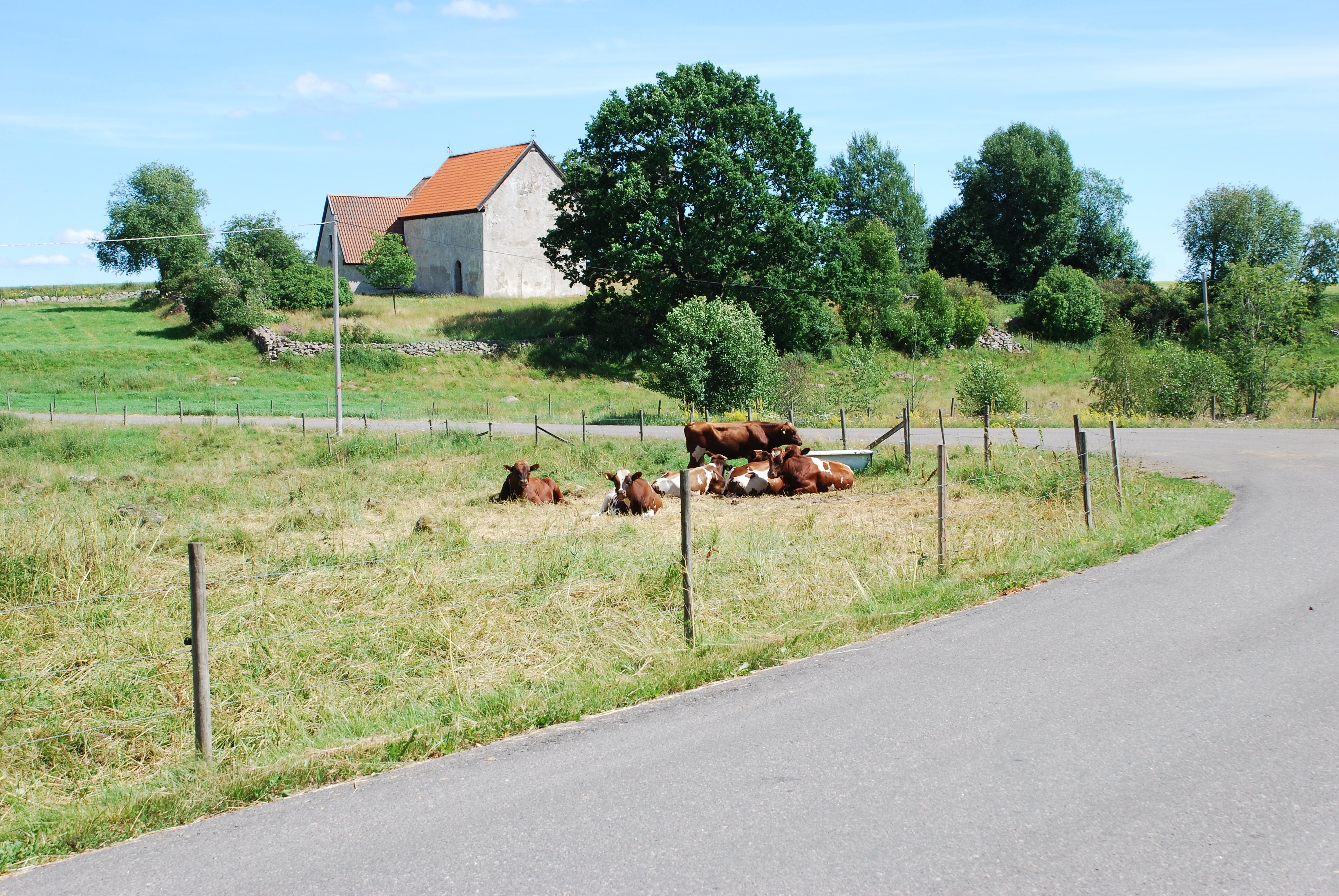 The old church of Hemmesjö